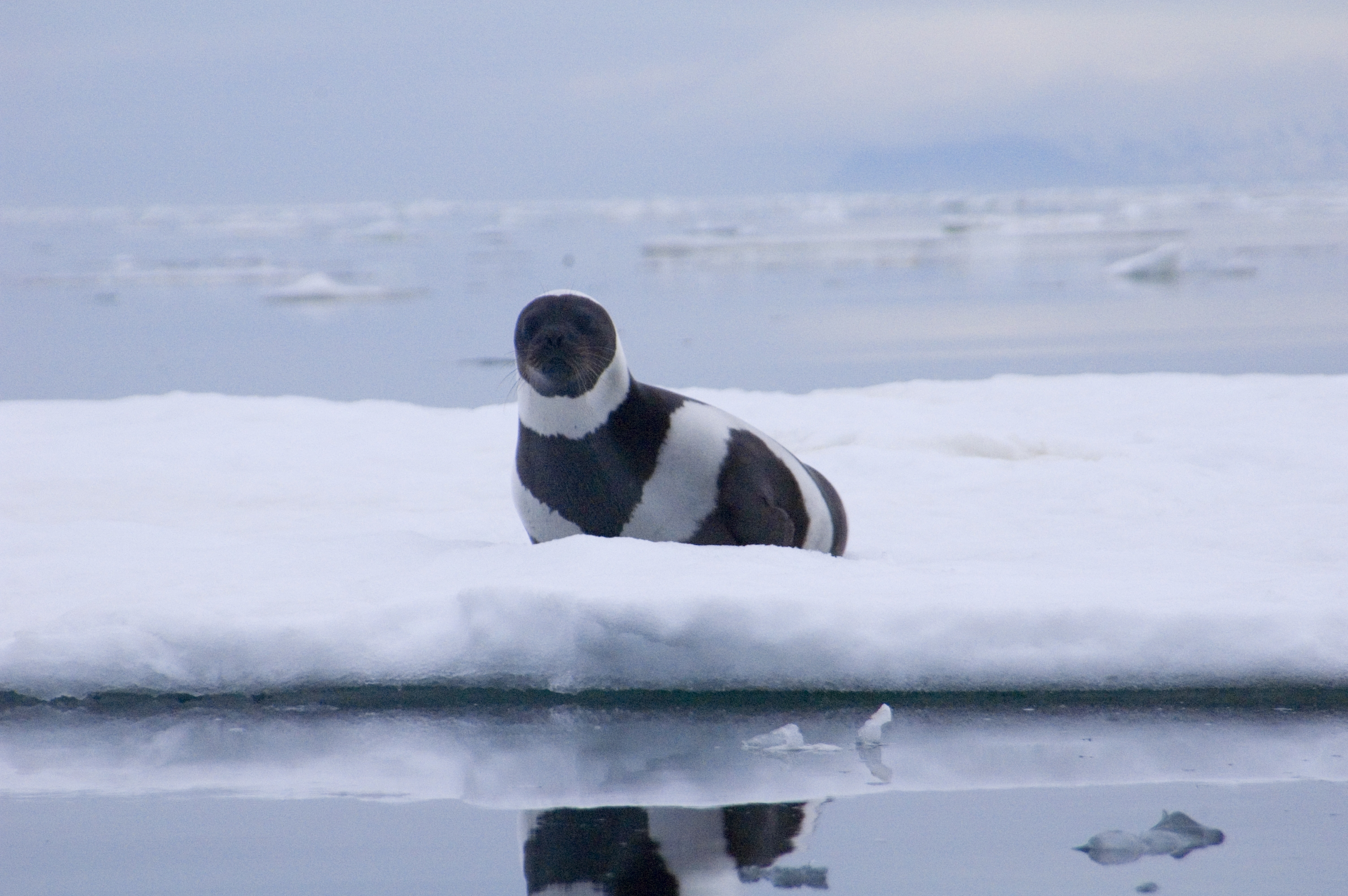 Rare adult male ribbon seal. Russia, Ozernoy Gulf.